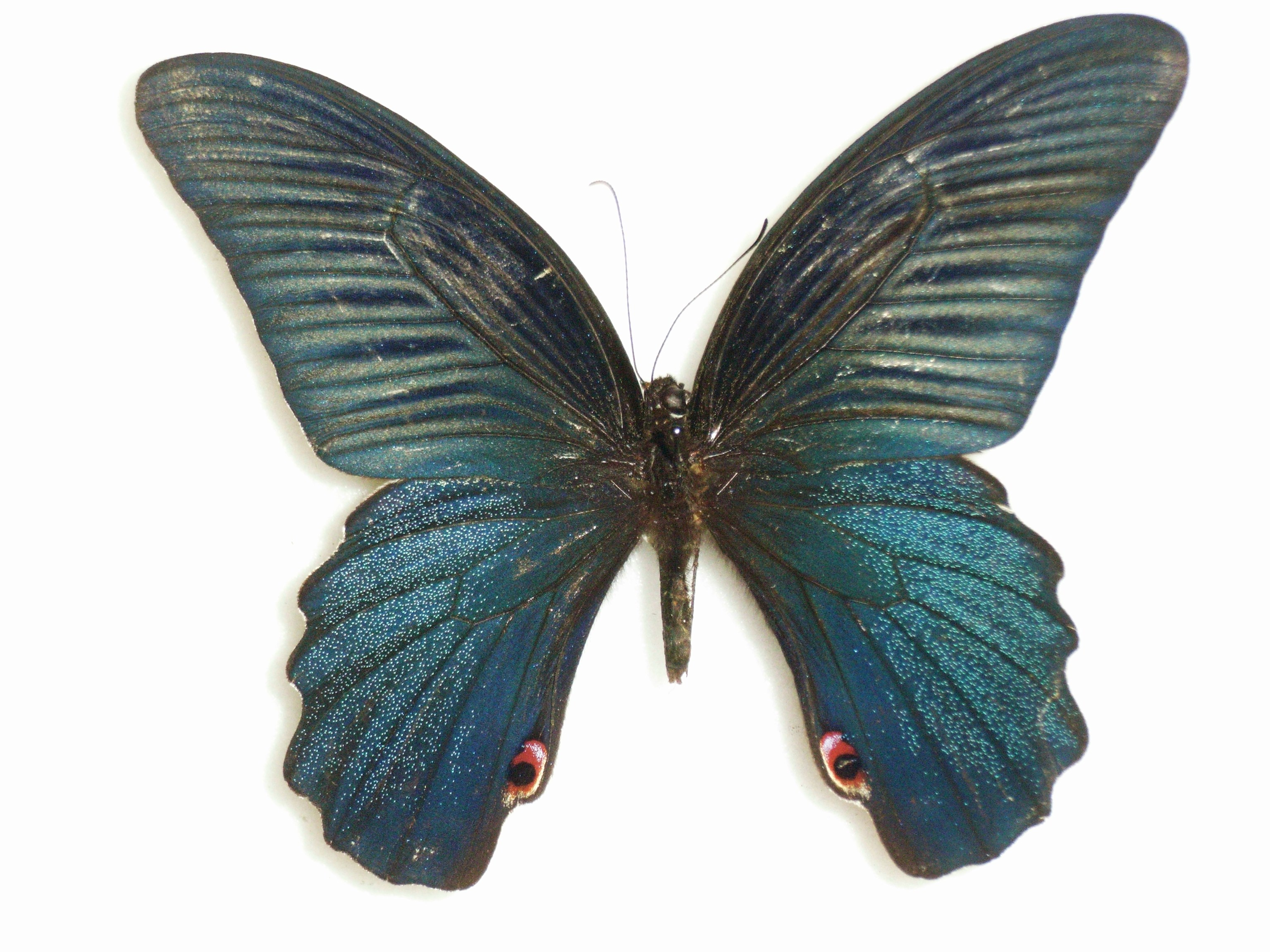 Papilio protenor Cramer, [1775] Male